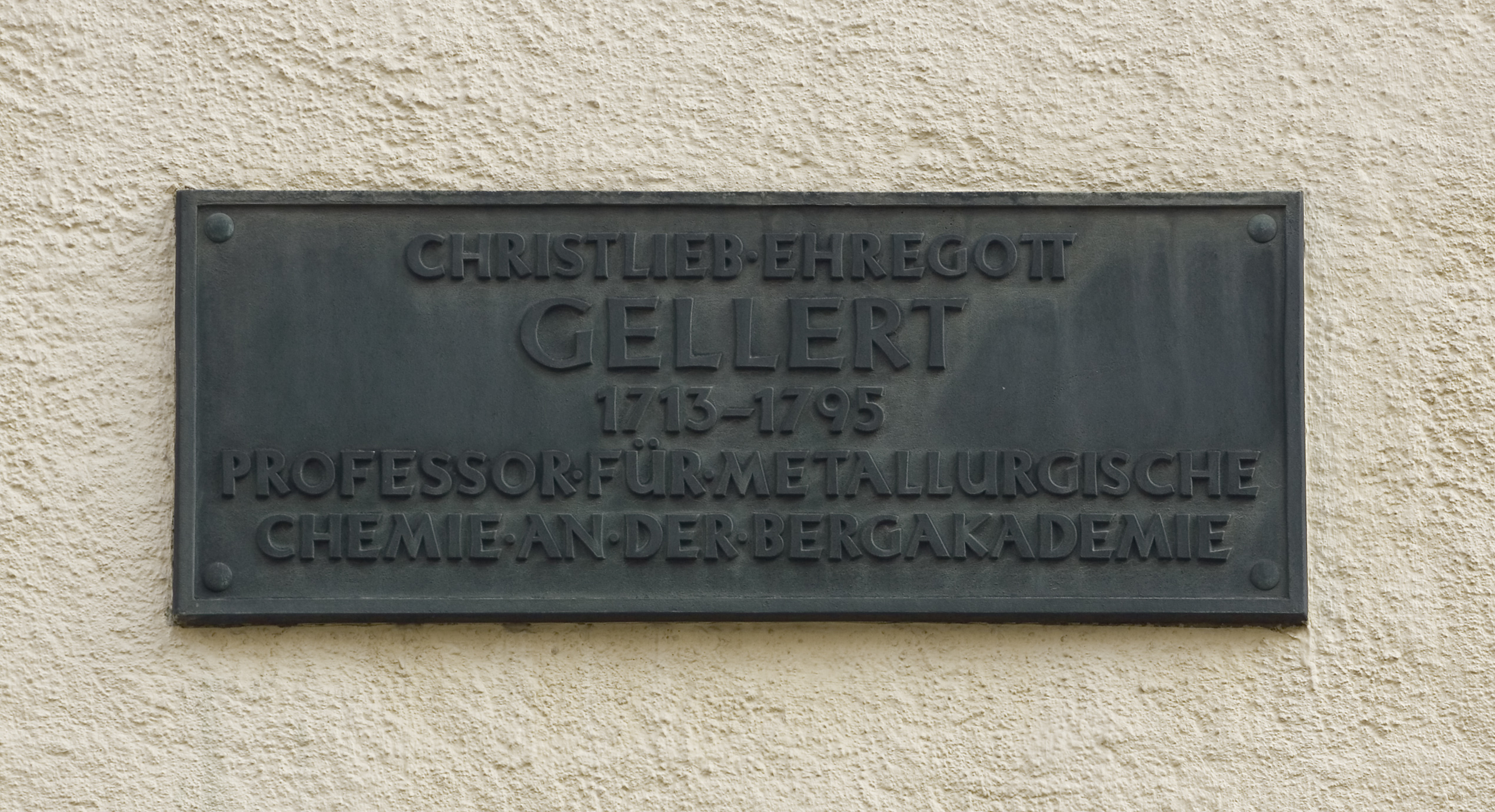 Christlieb Ehregott Gellert, German metallurgist and mineralogist, plaque on his house in Freiberg, Waisenhausstraße 10